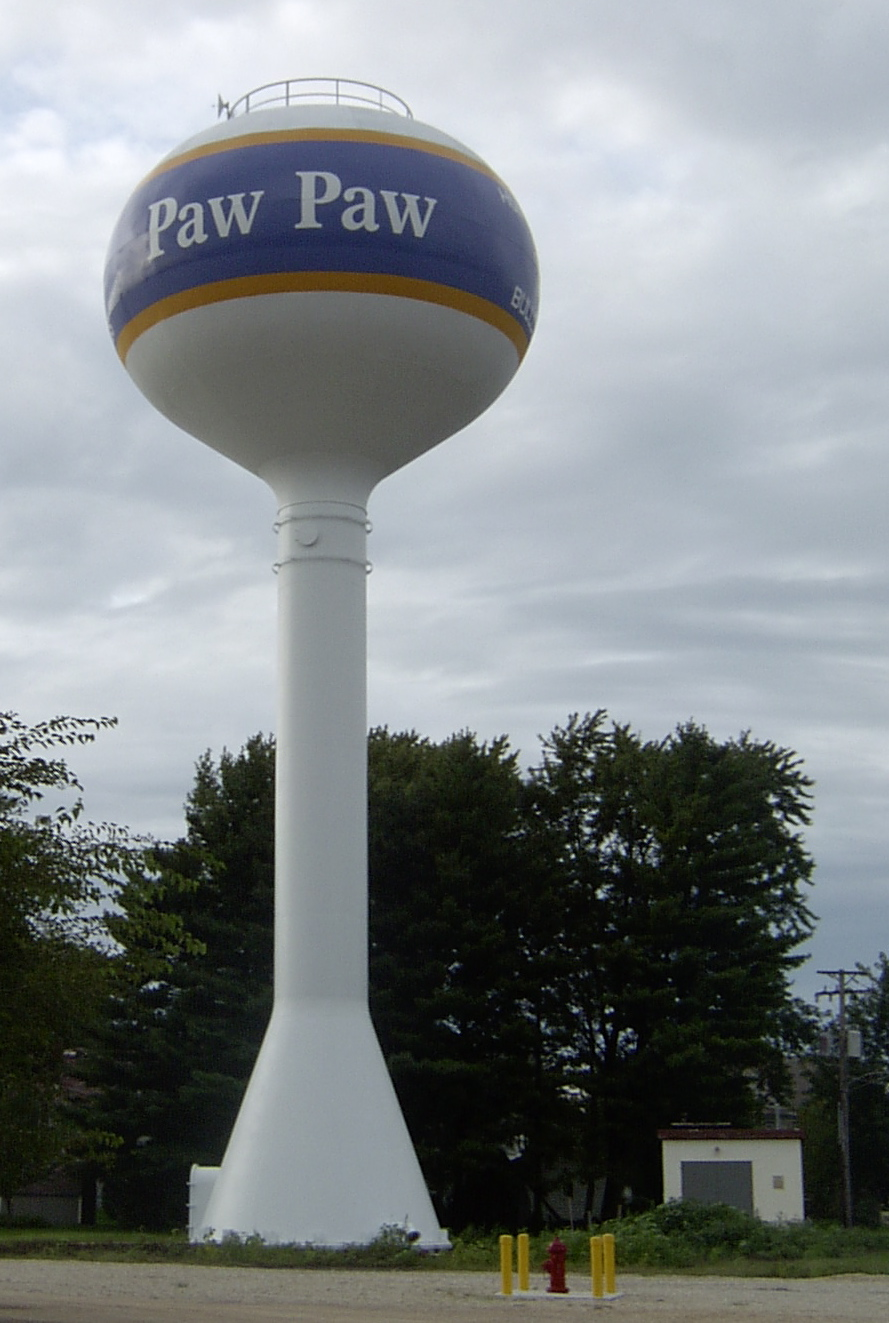 Water tower in Paw Paw, Illinois built with funds from a federal earmark